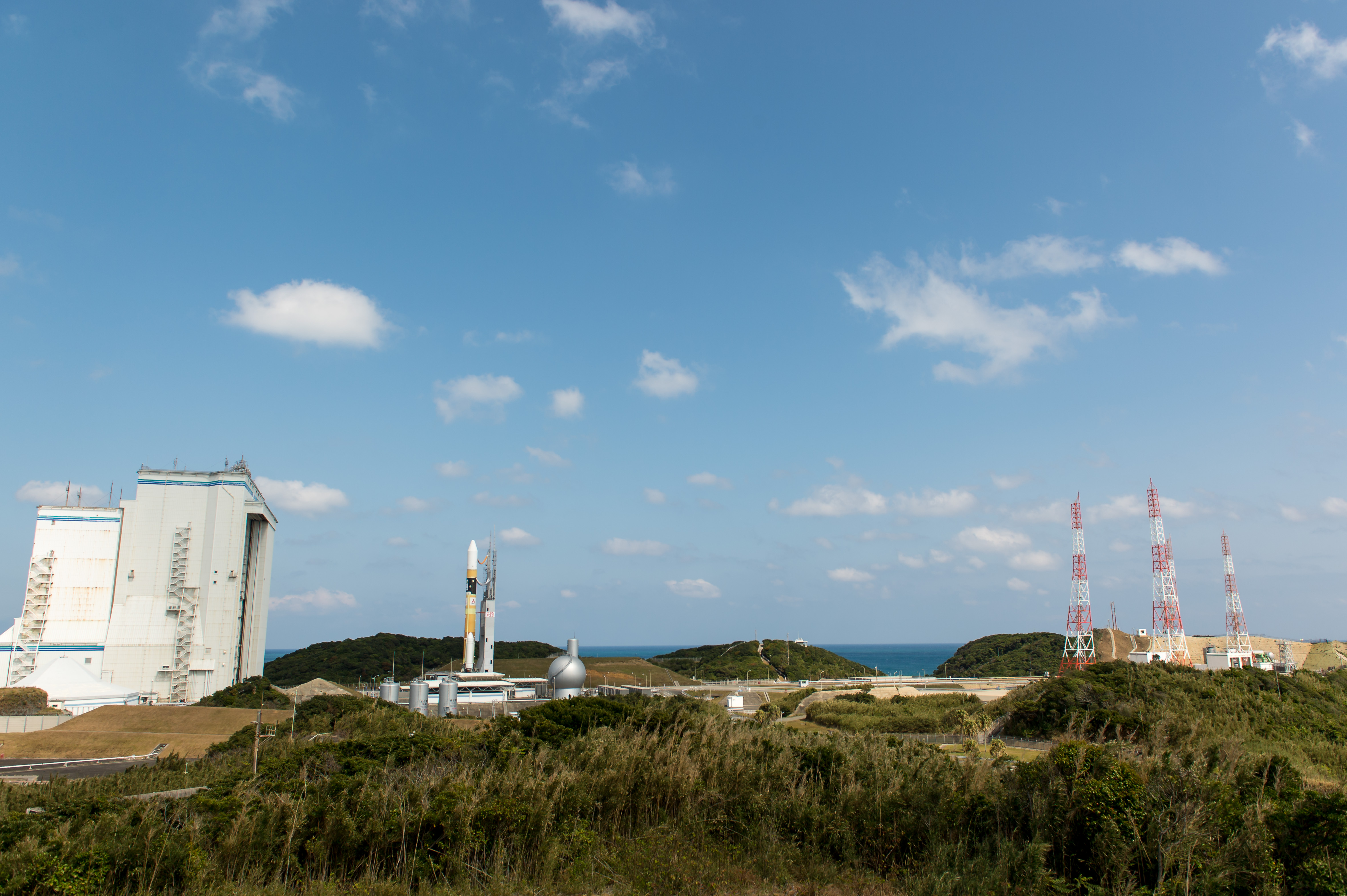 A Japanese H-IIA rocket carrying the NASA-Japan Aerospace Exploration Agency (JAXA), Global Precipitation Measurement (GPM) Core Observatory is seen as it rolls out to launch pad 1 of the Tanegashima Space Center, Thursday, Feb. 27, 2014, Tanegashima, Japan. Once launched, the GPM spacecraft will collect information that unifies data from an international network of existing and future satellites to map global rainfall and snowfall every three hours. Photo Credit: (NASA/Bill Ingalls)